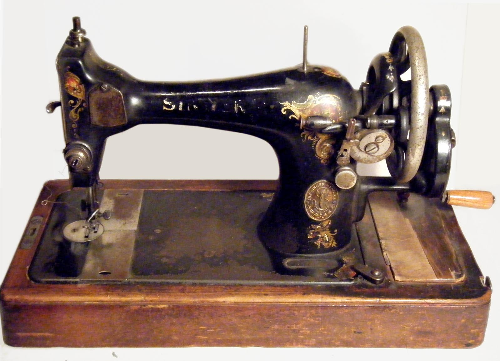 Singer model 128 sewing machine with hand crank